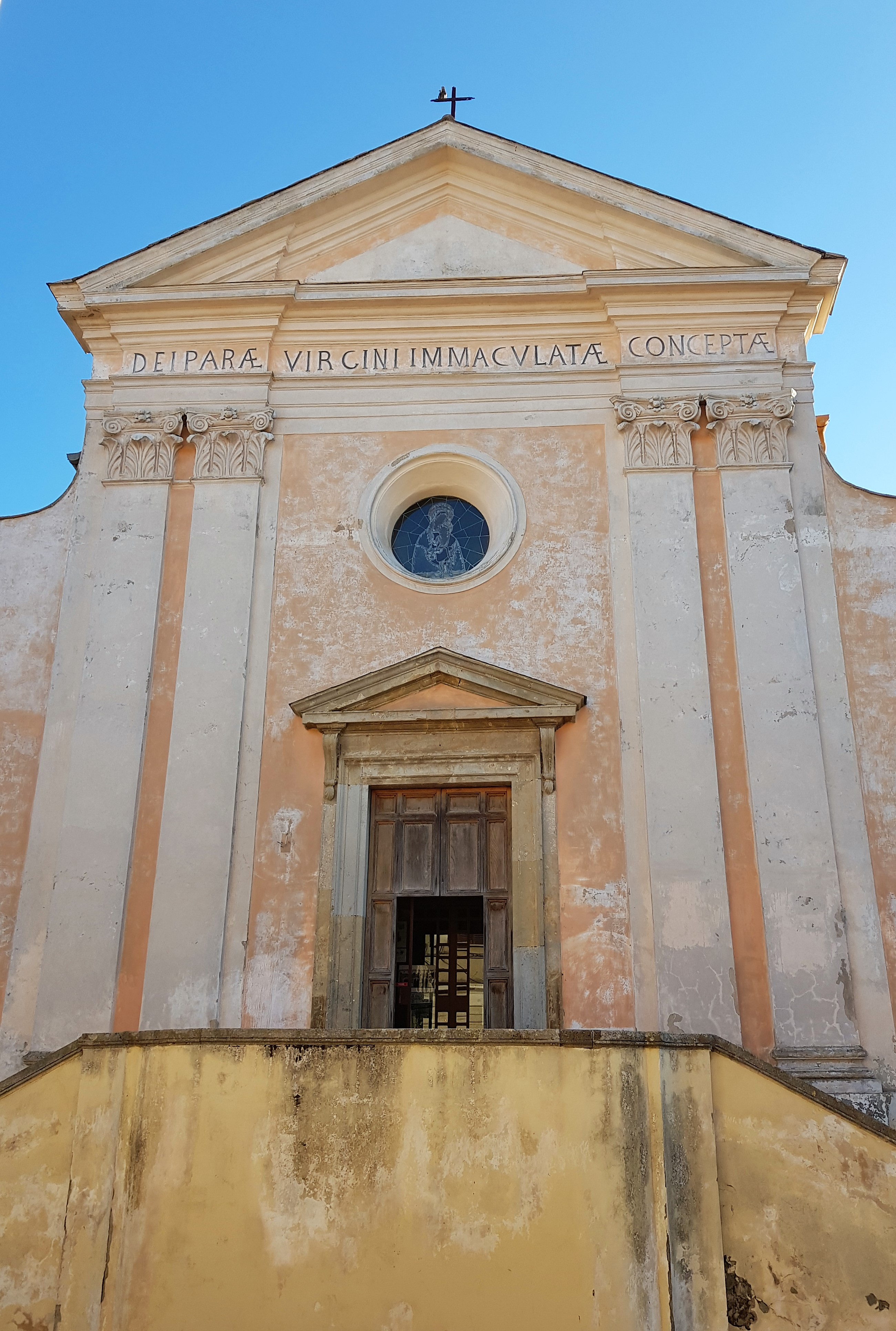 La chiesa di Ceri.